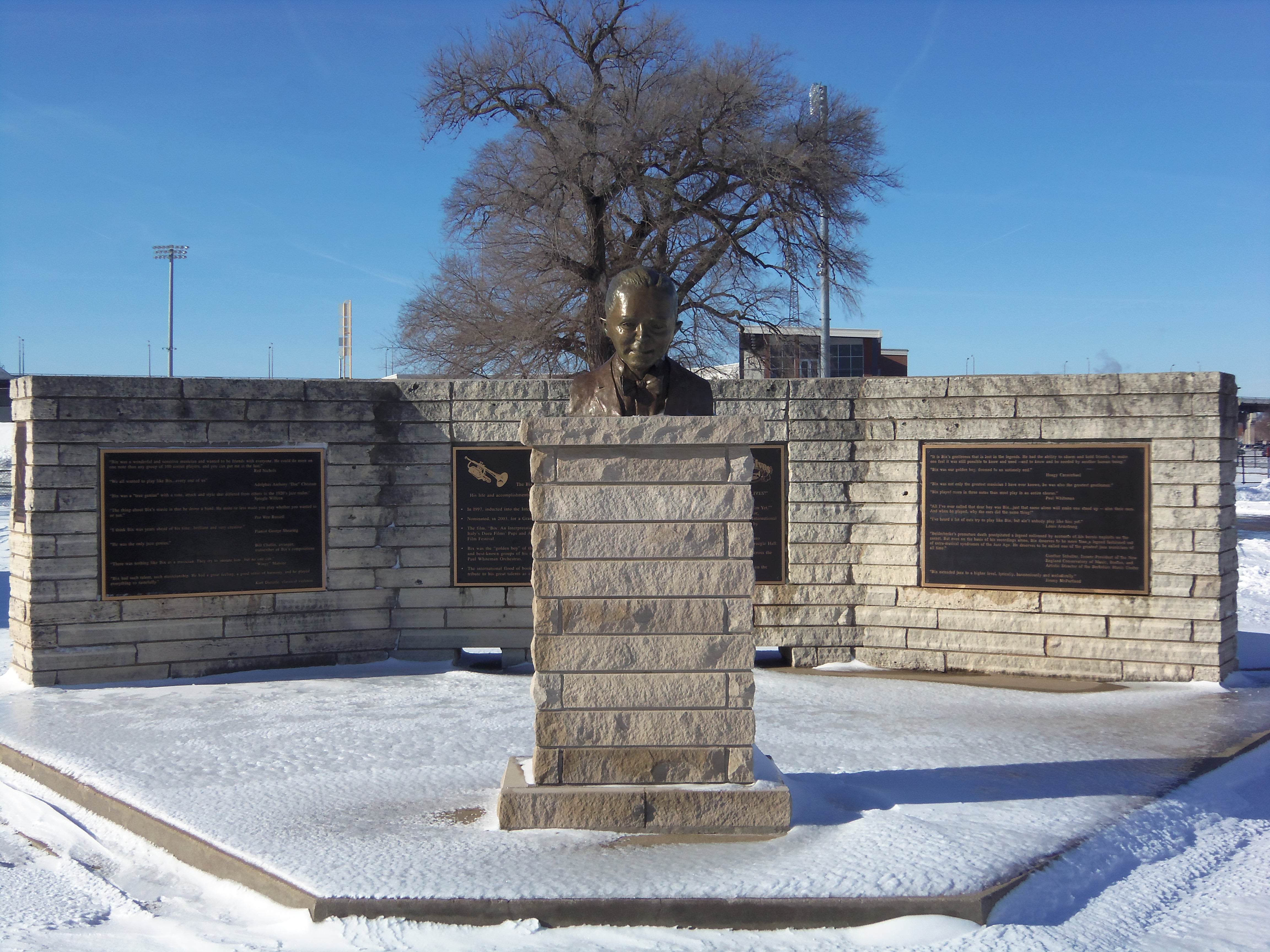 Bix Beiderbecke Memorial in Le Claire Park along the Mississippi River in Davenport, Iowa.